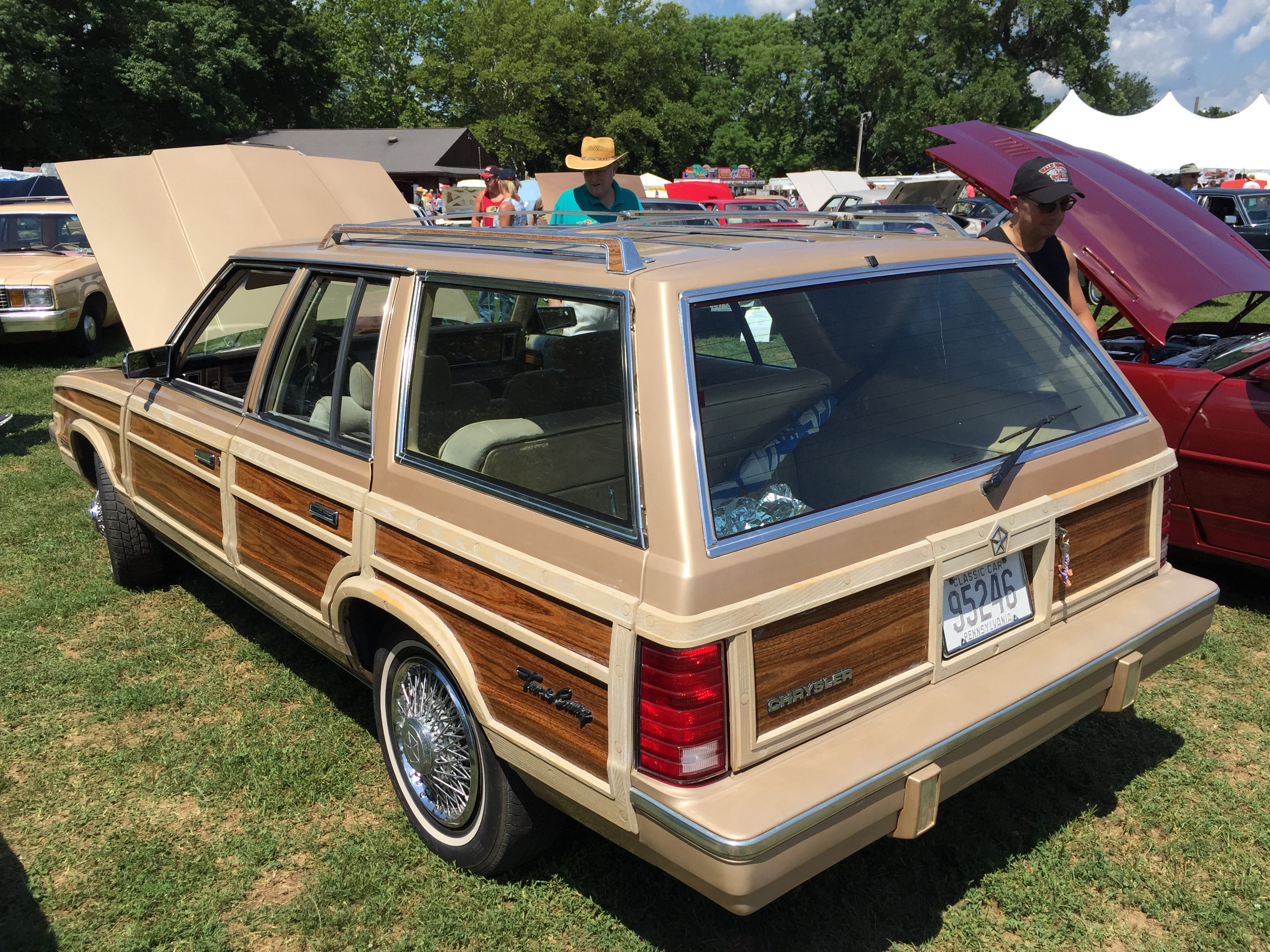 1983 Chrysler Town & Country. The historic name was used on a station wagon version of the K-body-based, front wheel drive LeBaron. This car is in original factory condition. Picture taken at the 52nd Annual "Das Awkscht Fescht" antique car show in Macungie, Pennsylvania.